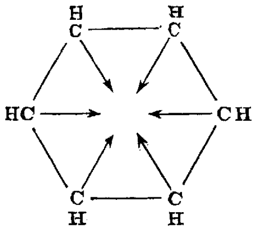 Henry Edward Armstrong's proposal for the benzene structure in its original, taken from: Henry Edward Armstrong (1887). "An Explanation of the Laws which govern Substitution in the case of Benzenoid Compounds". J. Chem. Soc., Trans. 51: 258–268. "I venture to think that a symbol free from all objections may be based on the assumption that of the twenty-four affinities of the six carbon-atoms twelve are engaged in the formation of the six-carbon ring and six in retaining the six hydrogen-atoms, in the manner ordinarily supposed; while the remaining six react upon each other, — acting towards a centre as it were, so that the ‘affinity’ may be said to be uniformly and symmetrically distributed. I would, in fact, make use of the following symbol: —"